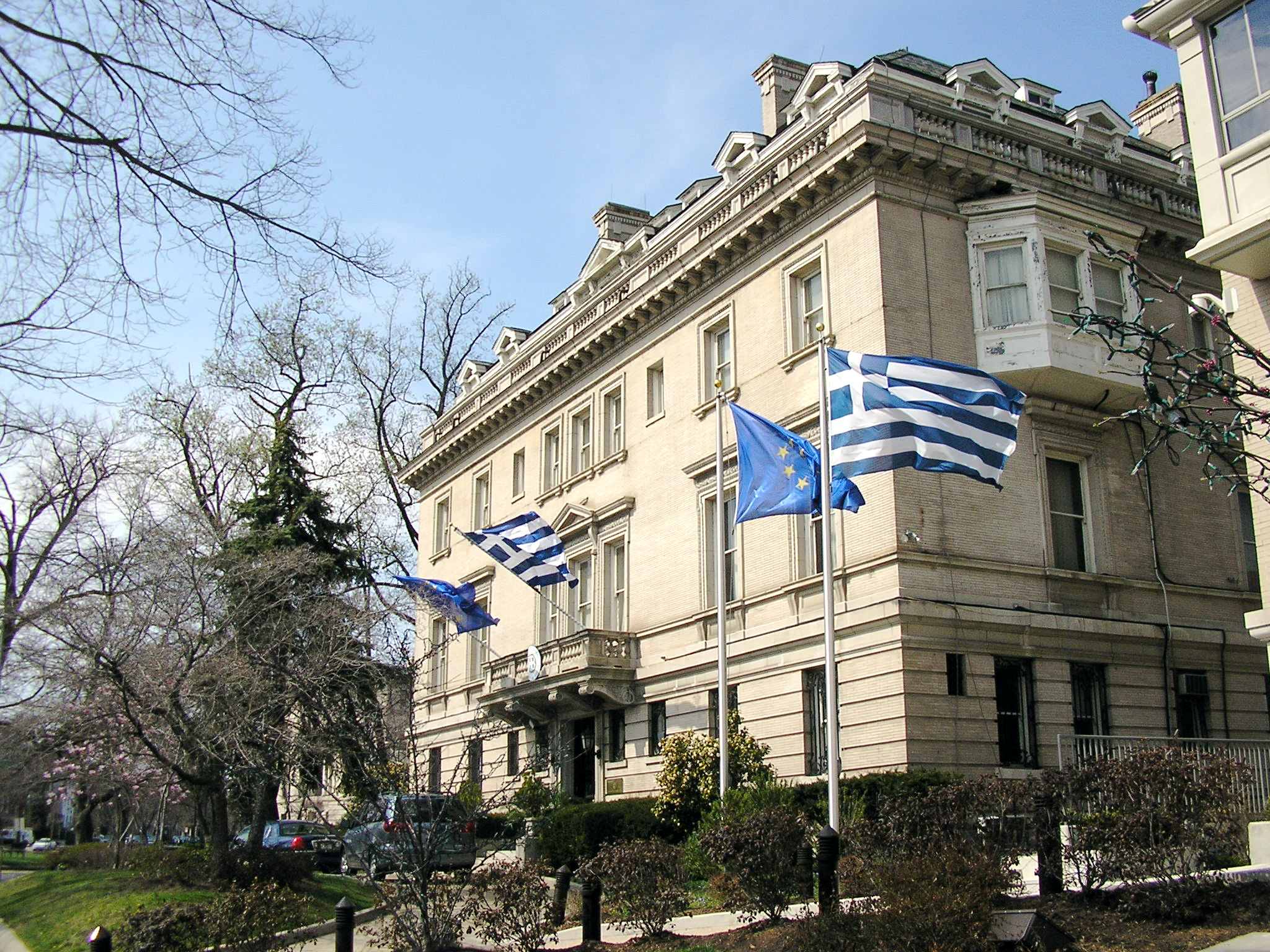 Part of the Embassy of Greece in Washington DC.